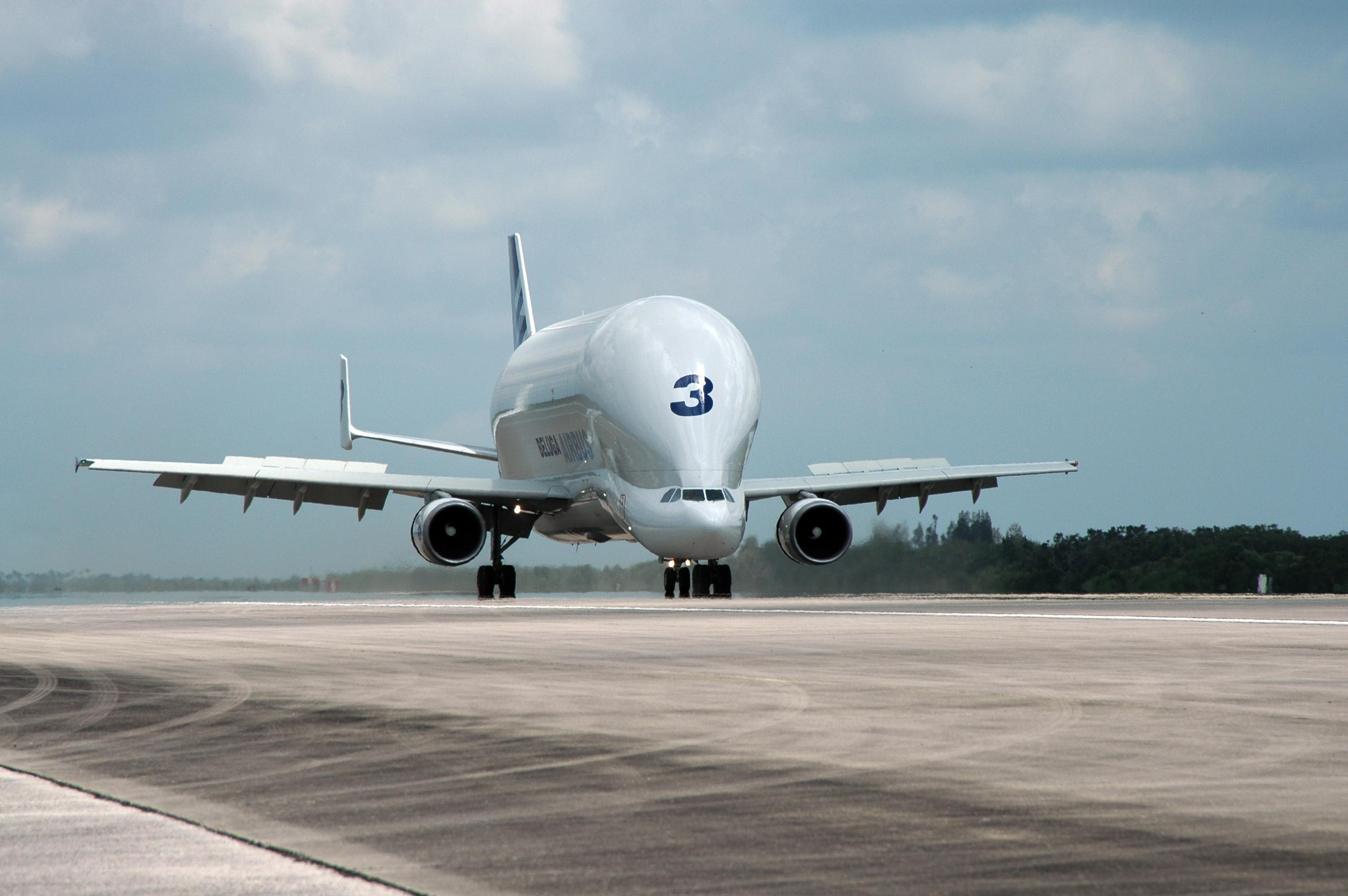 KENNEDY SPACE CENTER, FLA. – A Beluga aircraft arrives at the Shuttle Landing Facility on NASA's Kennedy Space Center. The Beluga carries the European Space Agency's research laboratory, designated Columbus, flown to Kennedy from its manufacturer in Germany. The module will be prepared for delivery to the International Space Station on a future space shuttle mission. Columbus will expand the research facilities of the station and provide researchers with the ability to conduct numerous experiments in the area of life, physical and materials sciences.